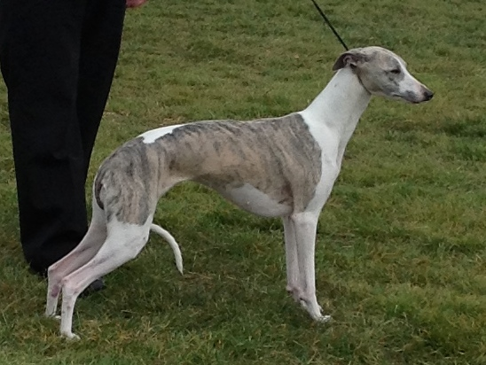 Whippet in show stance